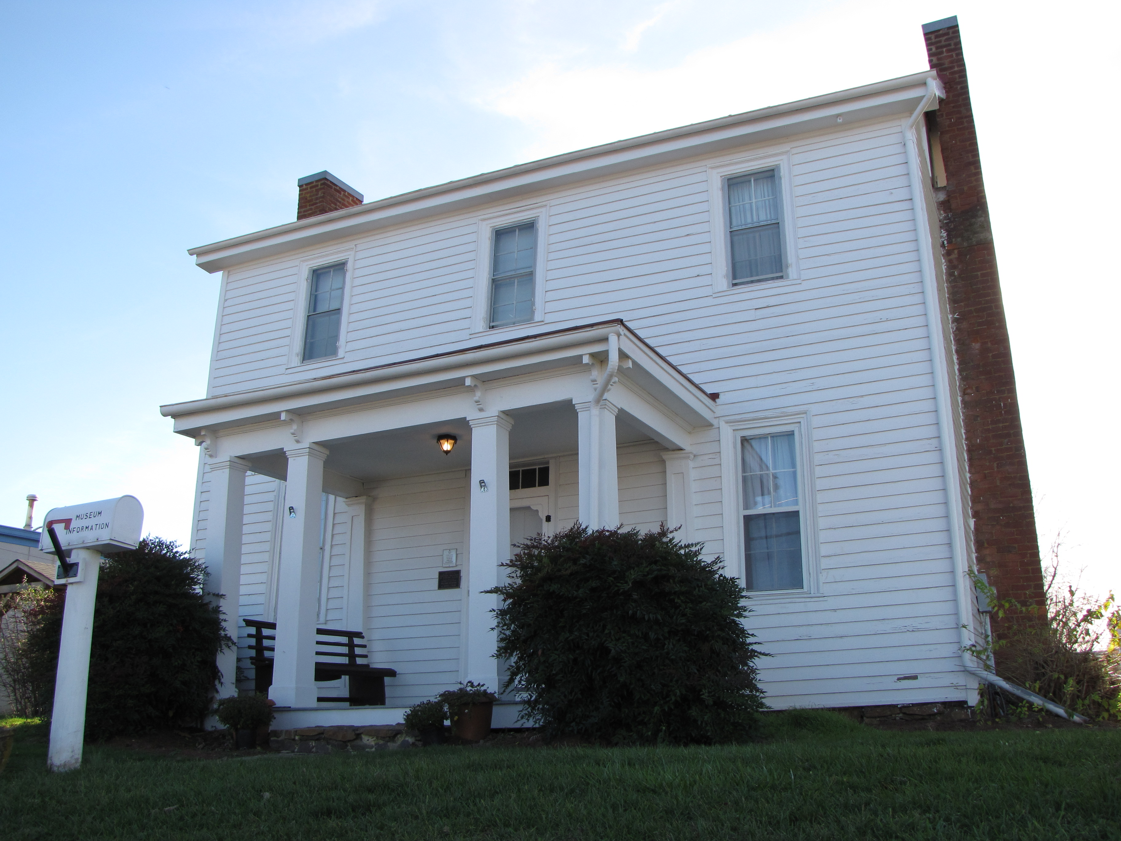 The Plumb House in Waynesboro, Virginia as seen from the street.